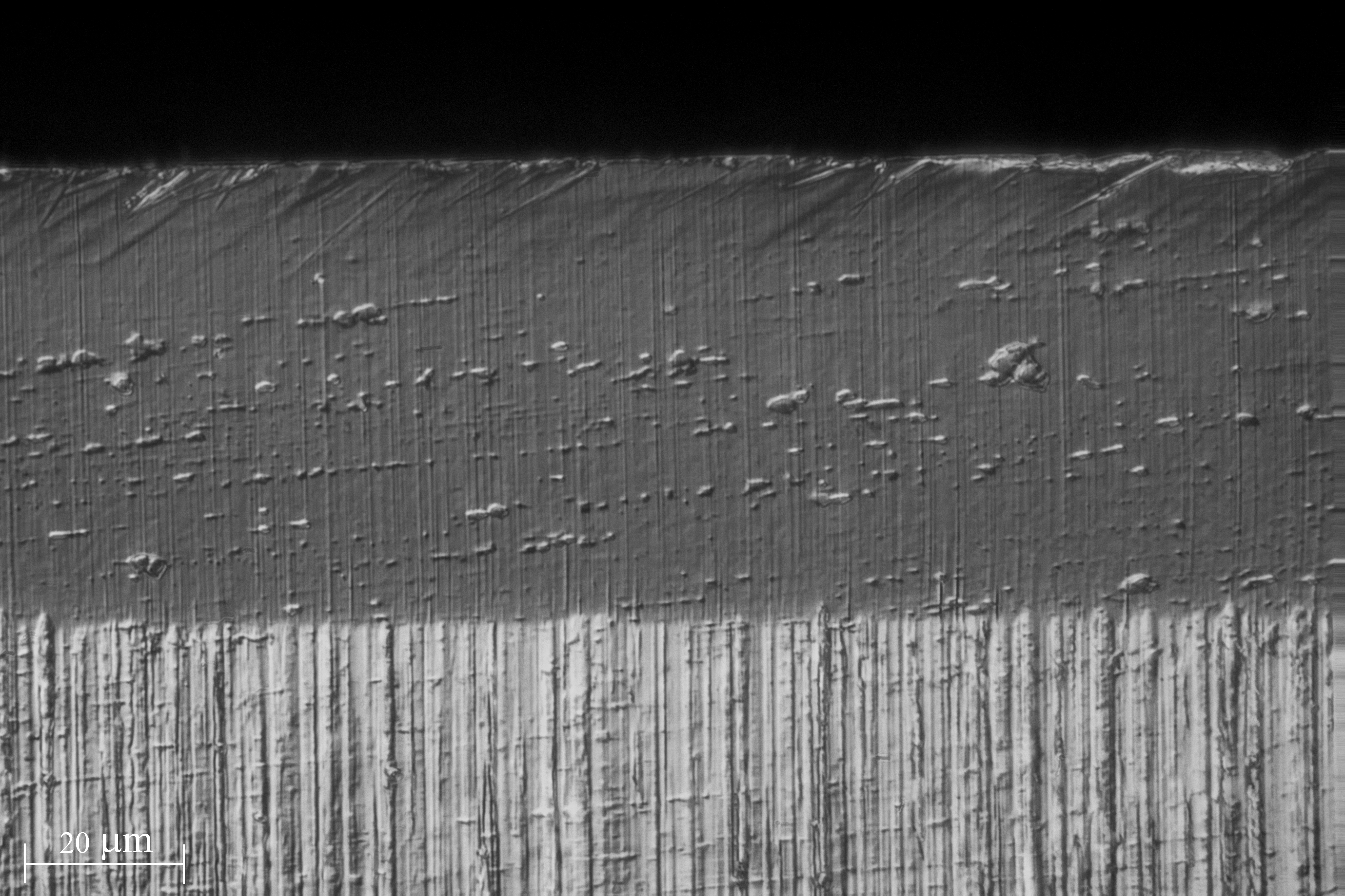 The cutting edge of a disposable blade for a microtome under a microscope. Differential interference contrast